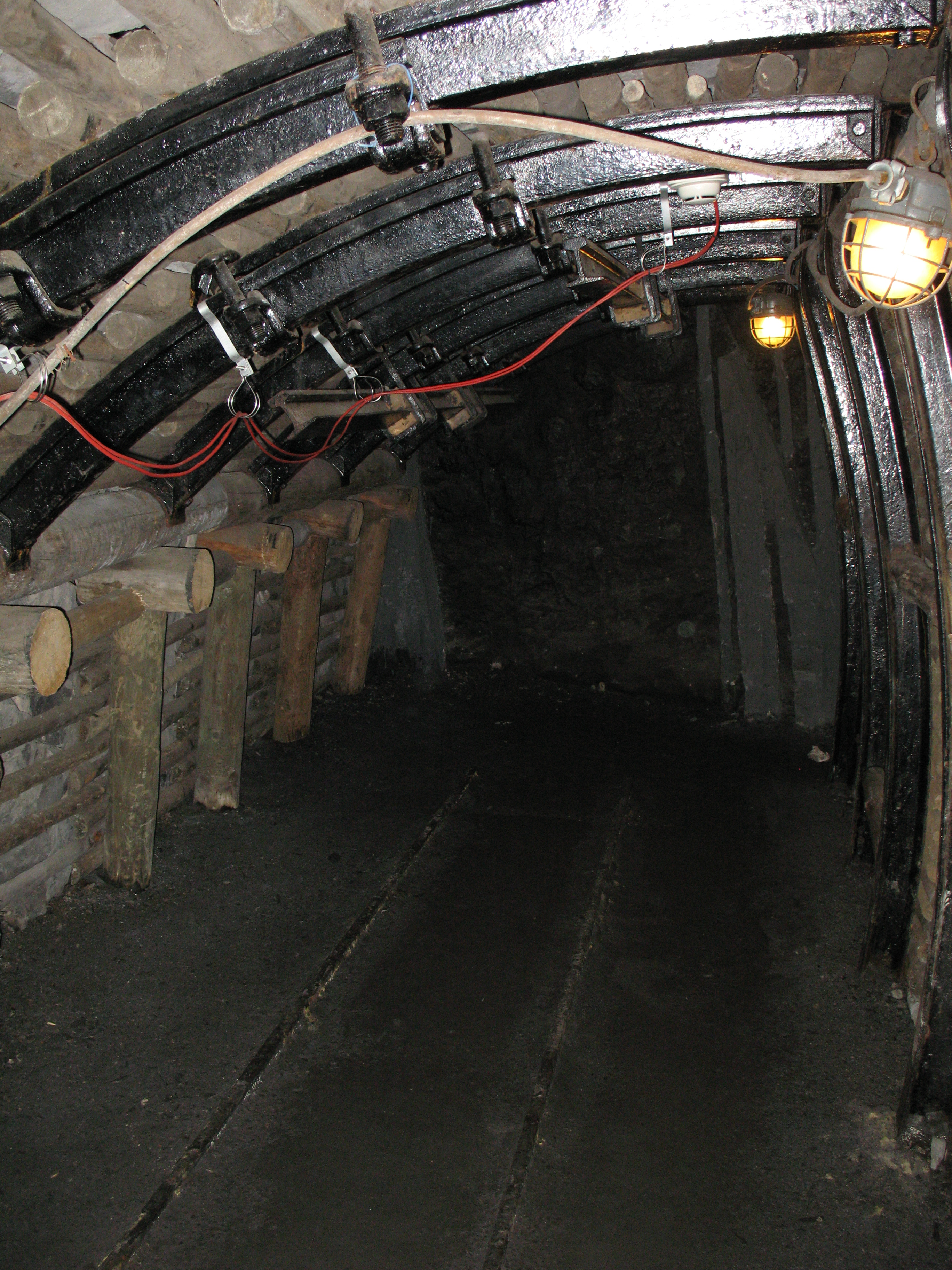 German Mining Museum in Bochum